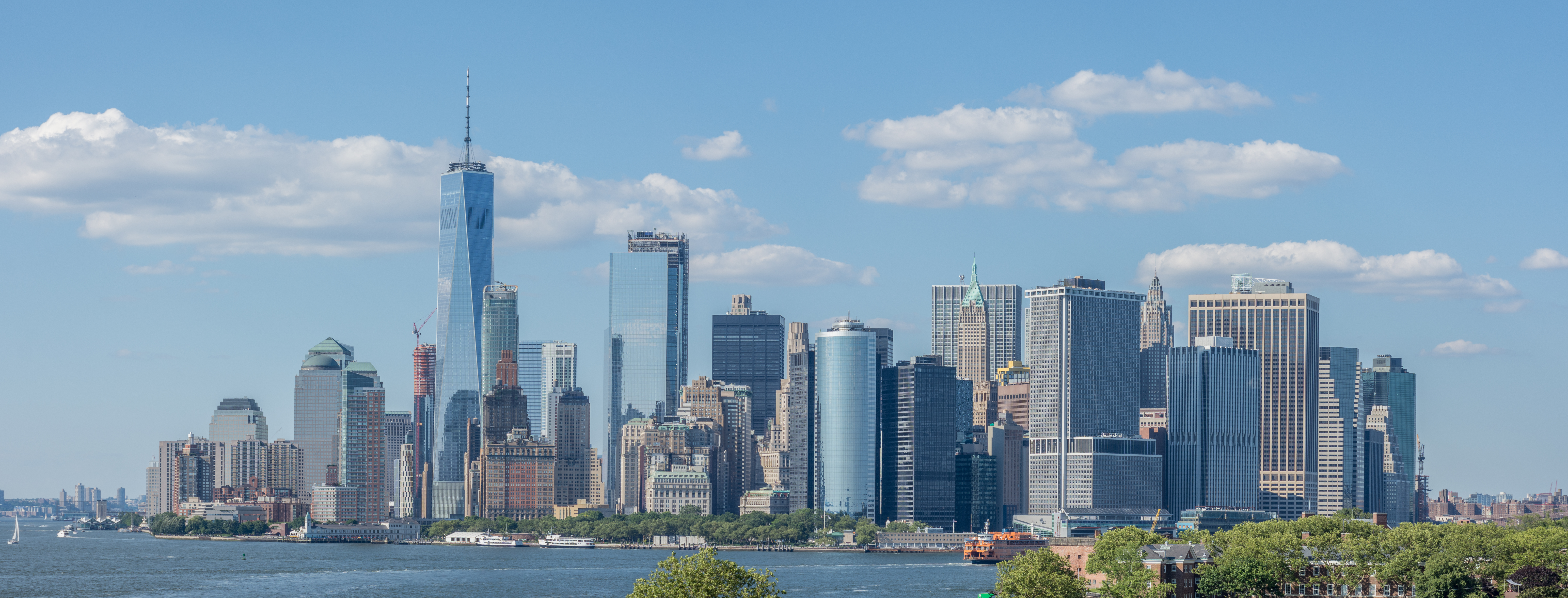 Lower Manhattan skyline as seen from Governors Island in June 2017.